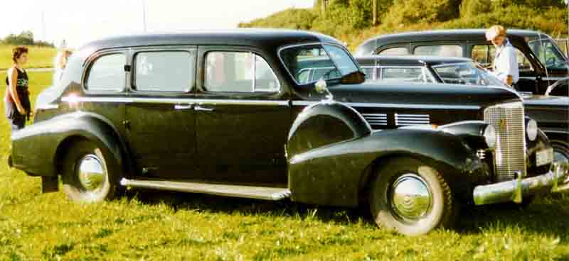 Cadillac Series 75 Imperial Touring Limousine 1938